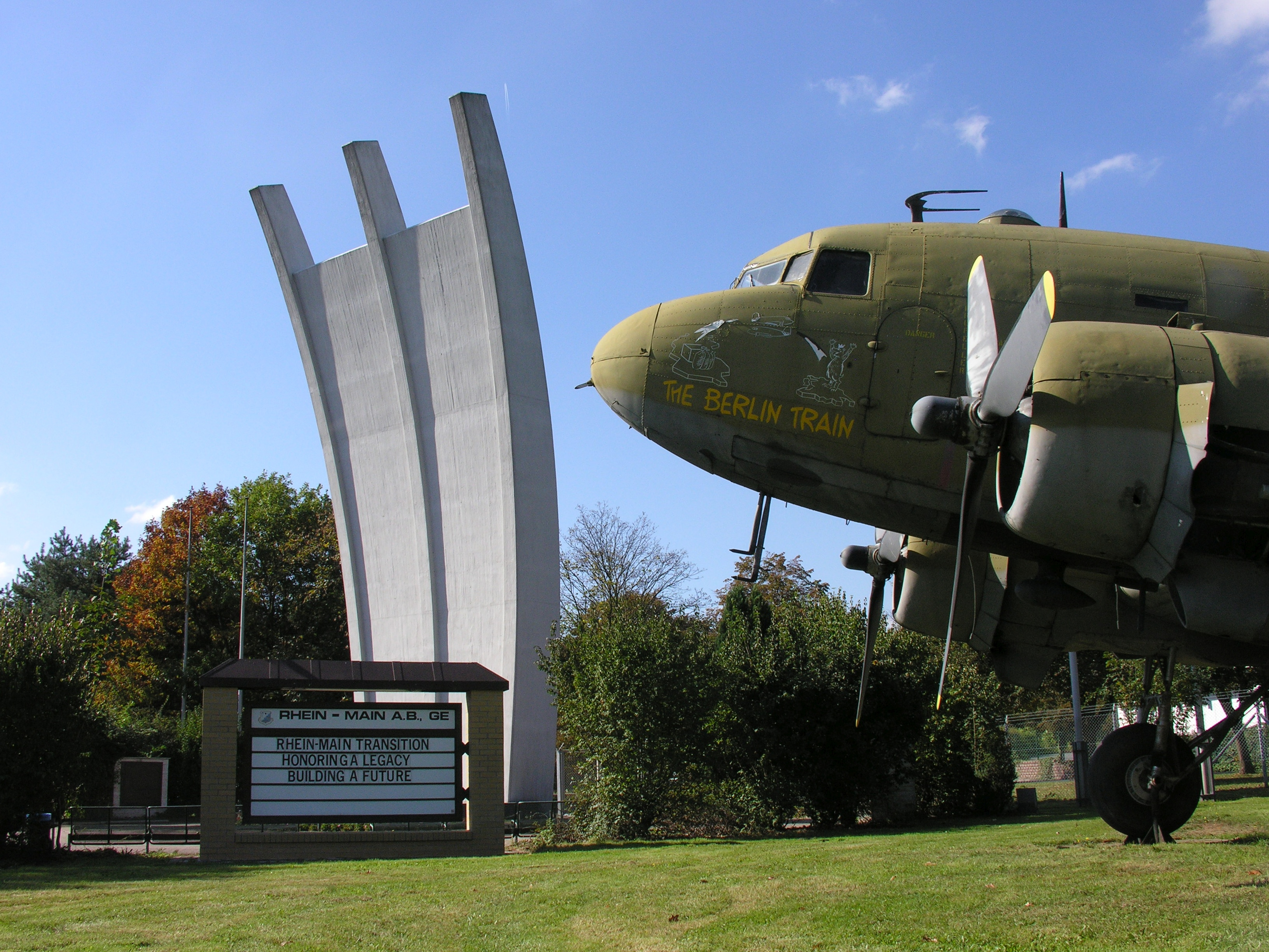 The Berlin Airlift Memorial, at the Frankfurt Airport, erected in 1951, symbolises the western buttress of the bridge. It is complemented by a similar structure at former Tempelhof Airport, in West Berlin which symbolise the eastern buttress of the bridge. A USAF Douglas C47 Dakota, the type of aircraft used in the airlift, is part of the memorial.